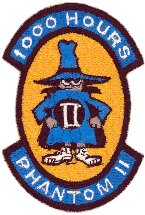 1000 hours in F-4 Phantom patch to illustrate the Spook.